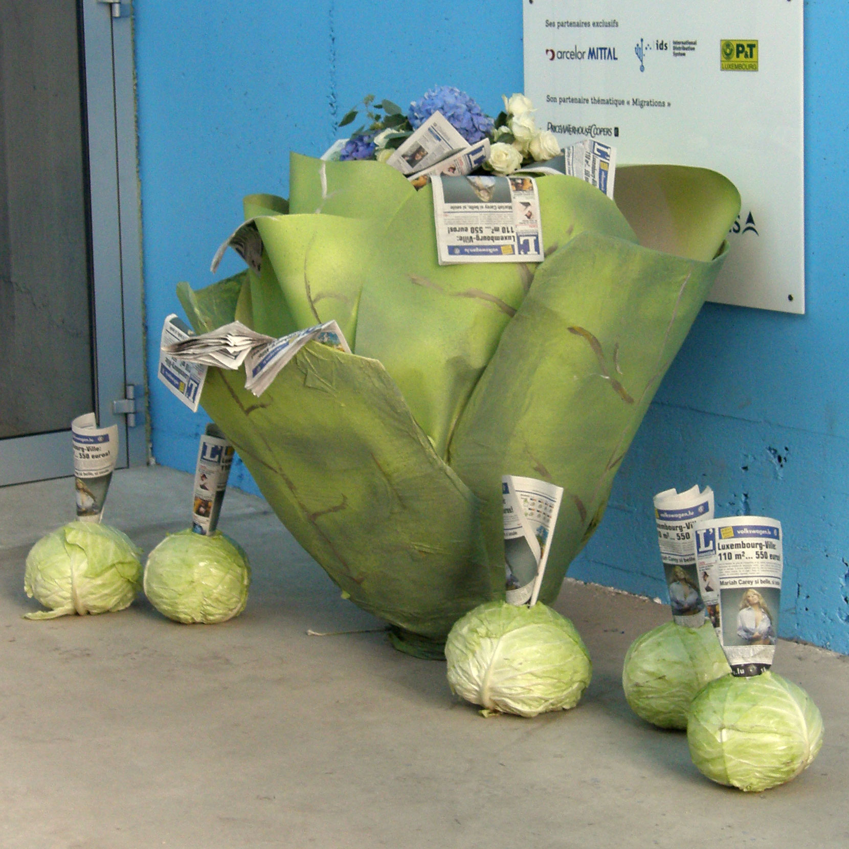 Decoration at the entrance to the Hall des Soufflantes (Gebléishal) at Belval, October 10, 2007, at the reception for the first number of L'Essentiel.